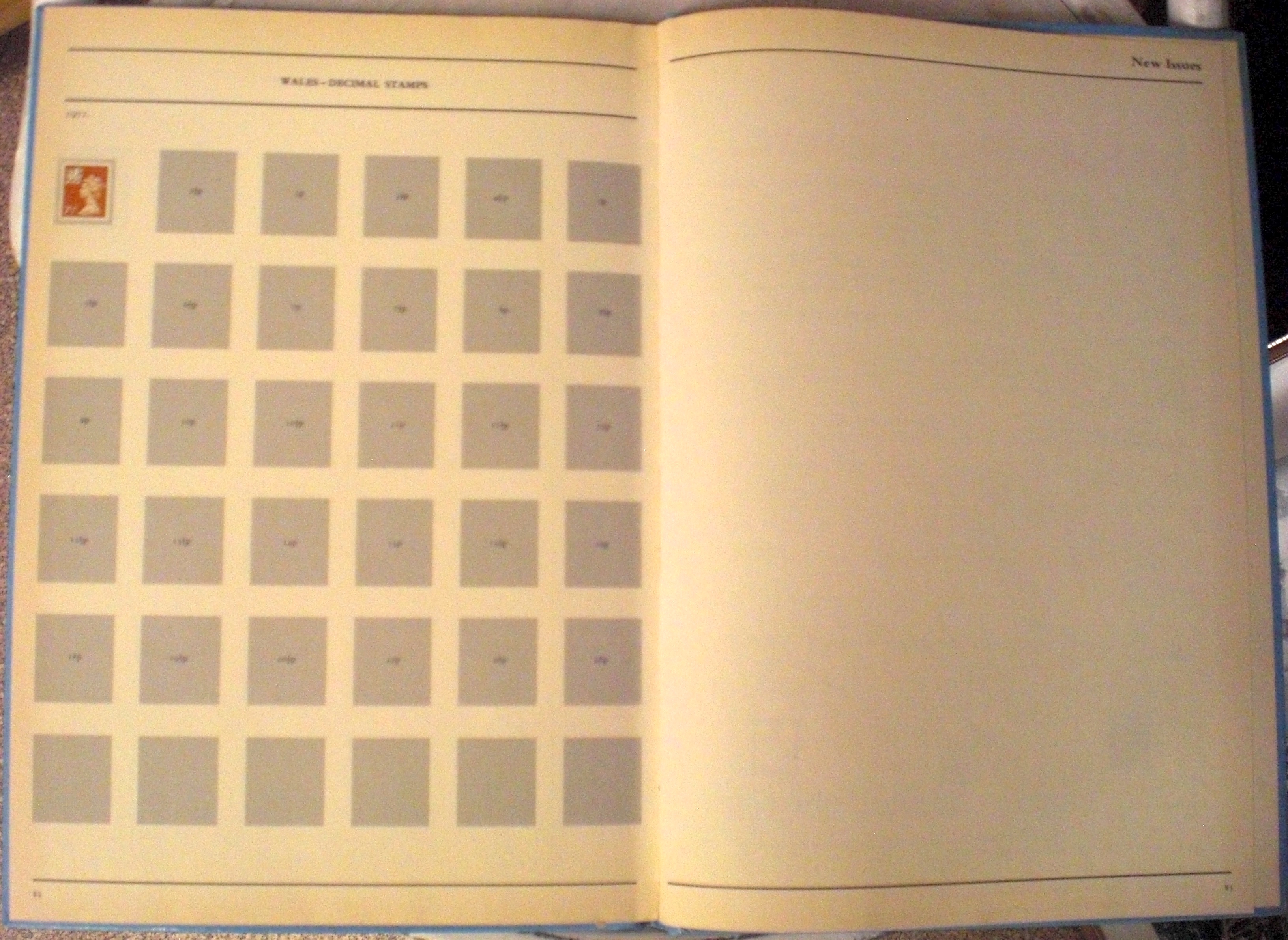 Stanley Gibbons Stamp Bug Album, Wales Decimal Stamps page